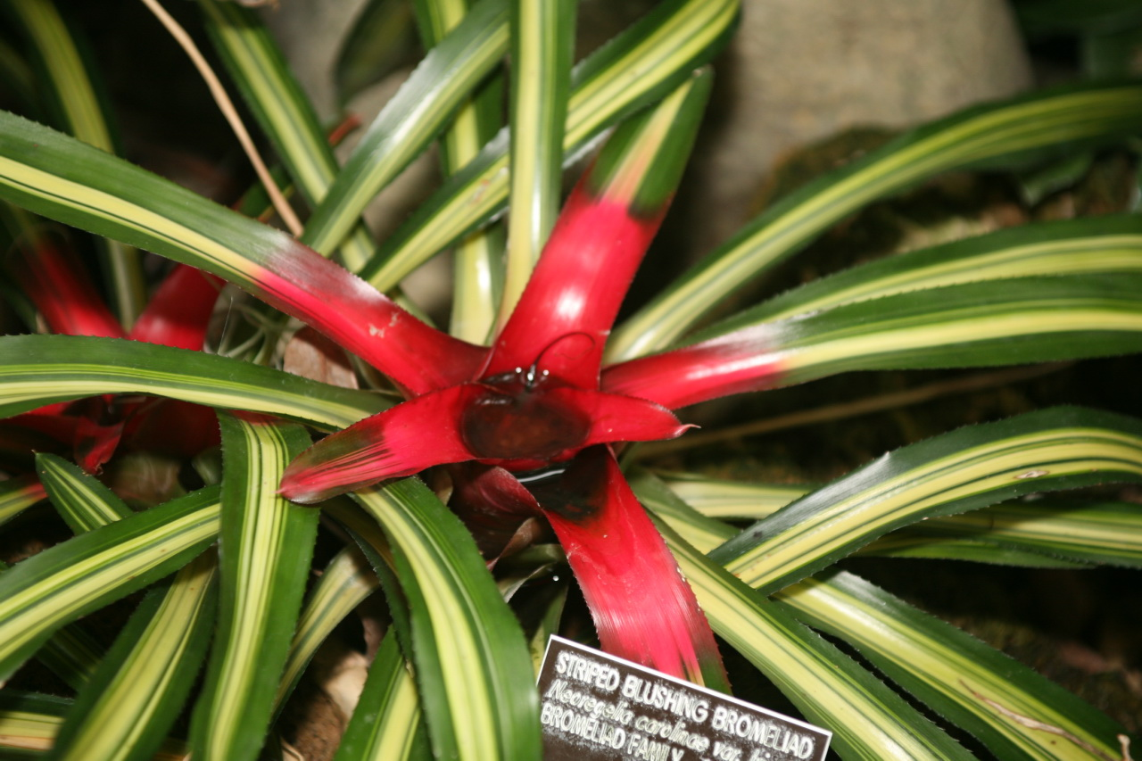 Member of the Bromeliad family - Bromeliaceae